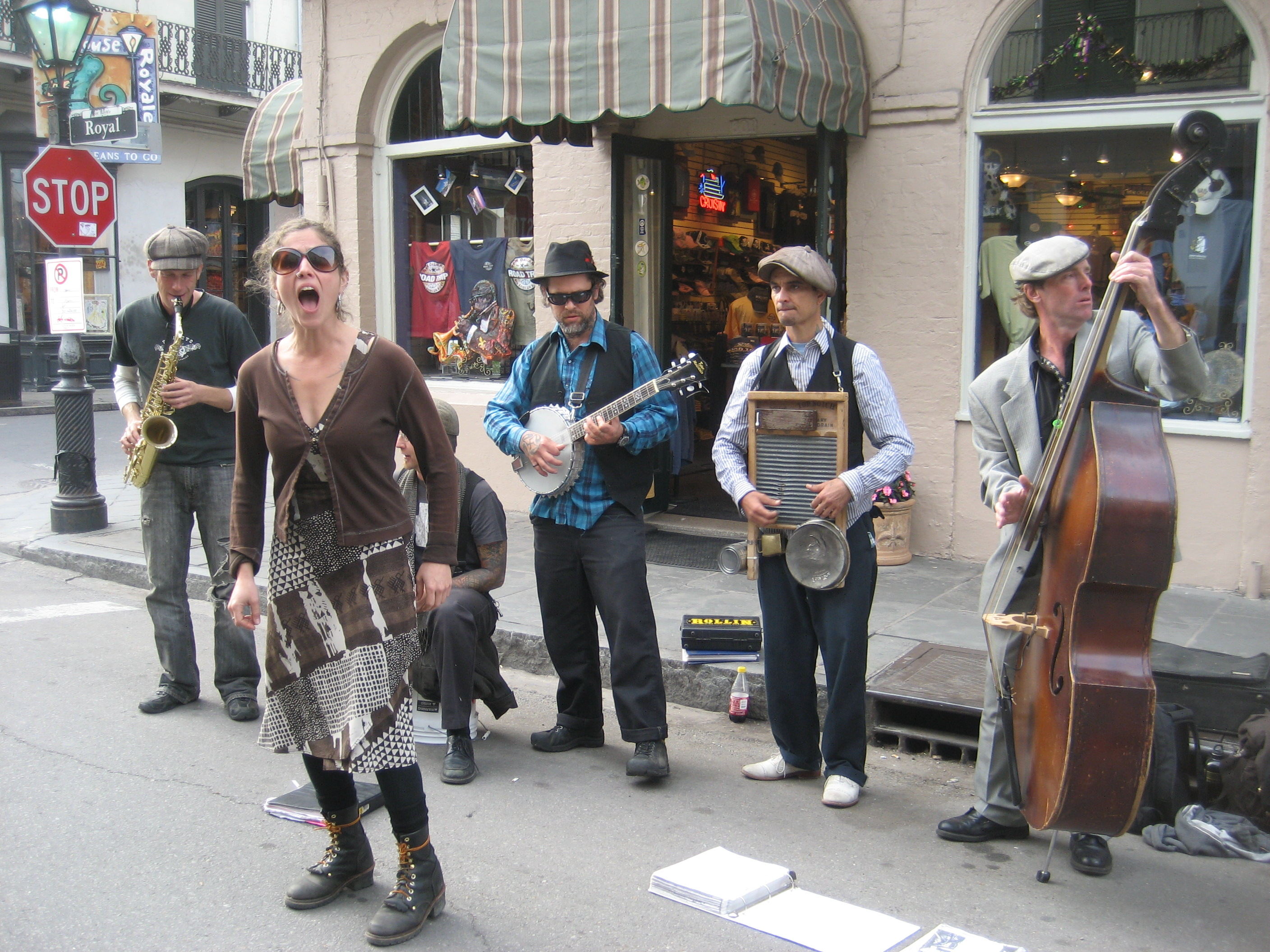 Street band on Royal Street, French Quarter, New Orleans